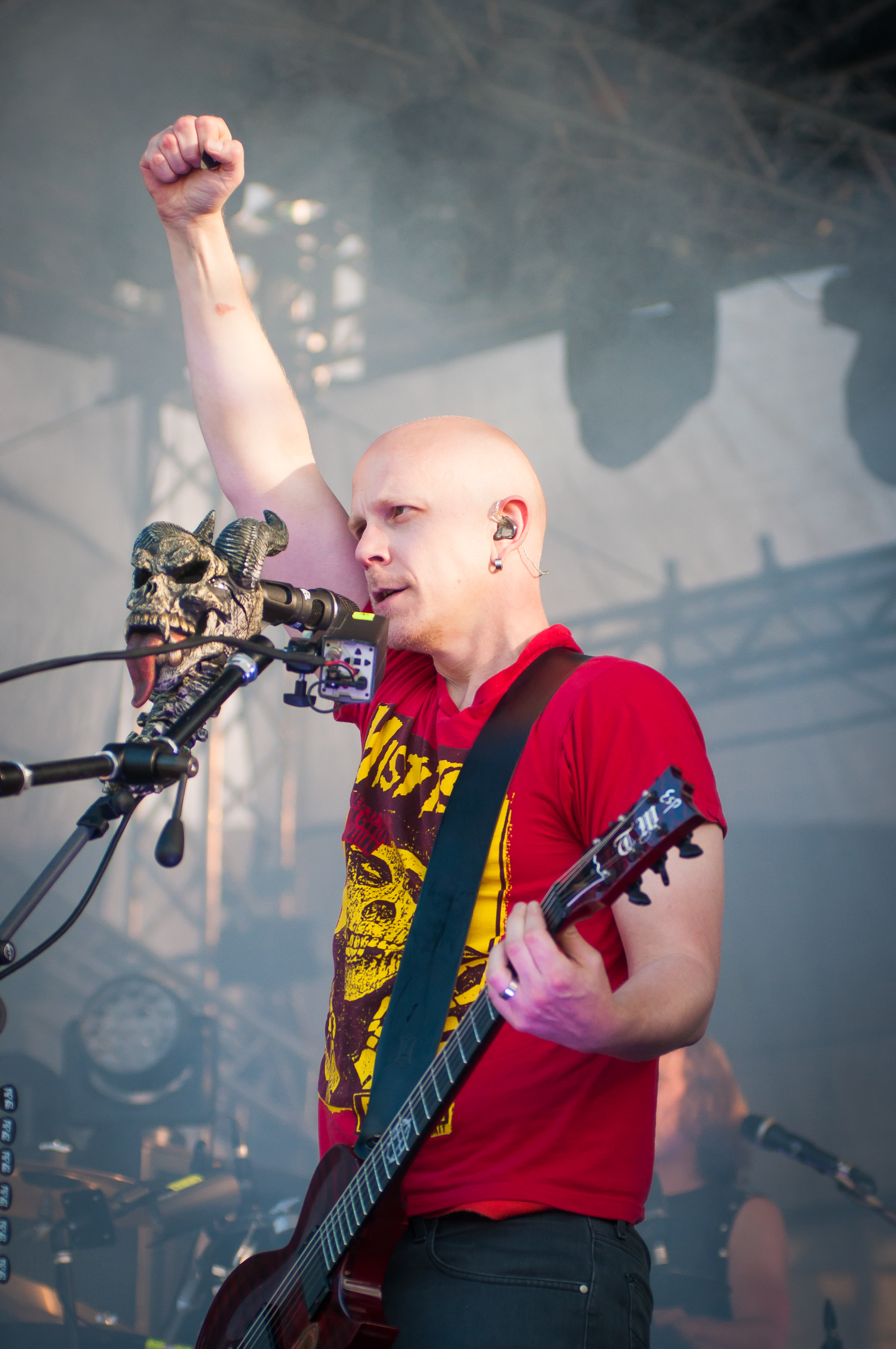 Guitarist and vocalist Toni Wirtanen of Finnish punk rock band Apulanta performing at the 2014 Rakuuna Rock festival in Lappeenranta, Finland.